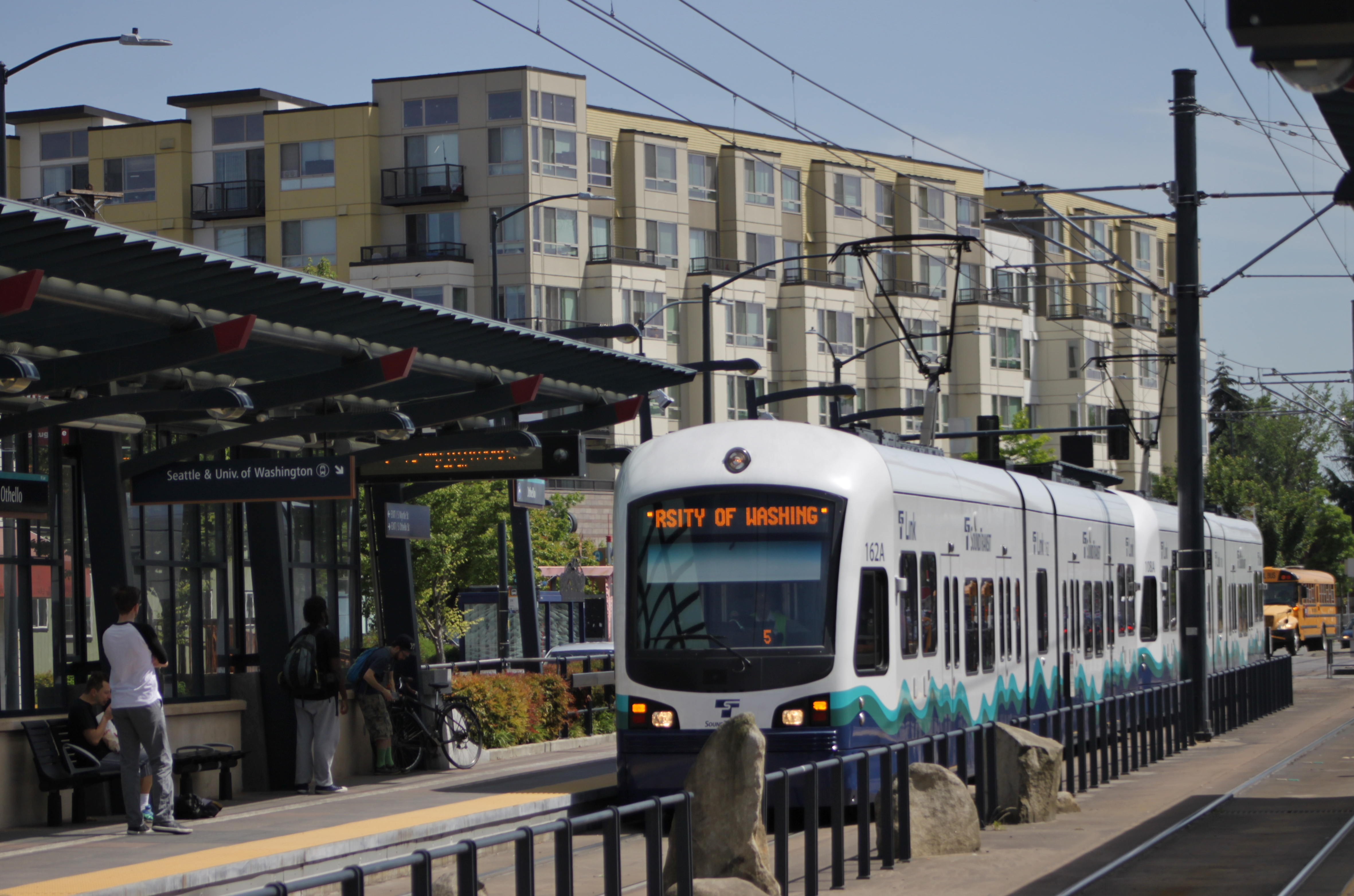 A northbound Link light rail train entering Othello station. The apartment building in the background was built after the station opened, as a form of transit-oriented development.